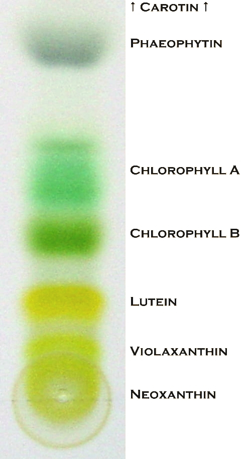 In the picture you can see the colours of chlorophyll and other pigments of a leaf extract (description: German) There might be a wrong component name: "Vidaxanthin" is in my opinion an erroneous spelling of the (correct) word "Violaxanthin" - when you write the "o" and "l" closely togehter they make a "d"...